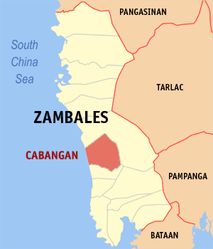 Map of Zambales showing the location of Cabangan